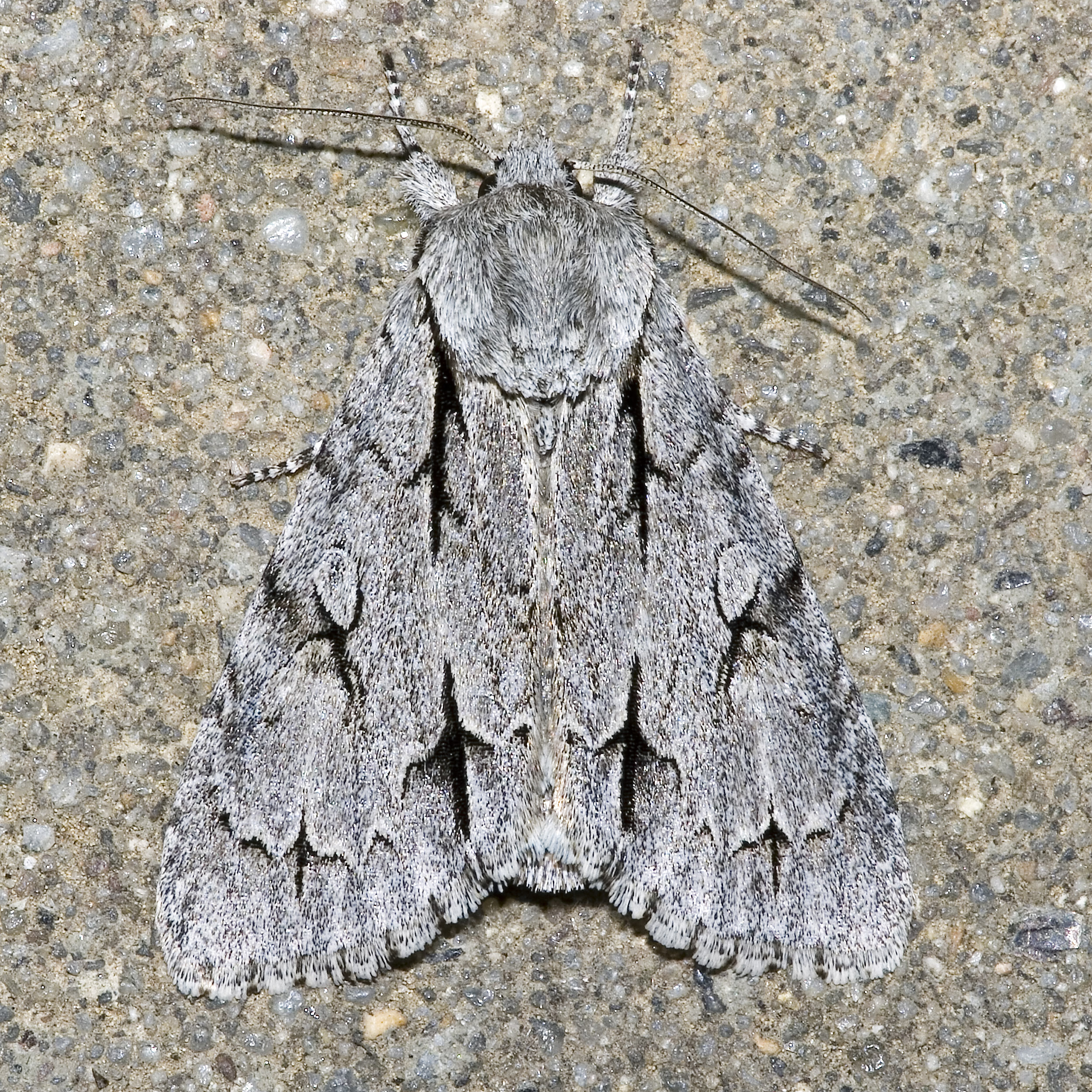 Grey Dagger, Acronicta psi (Linnaeus, 1758)